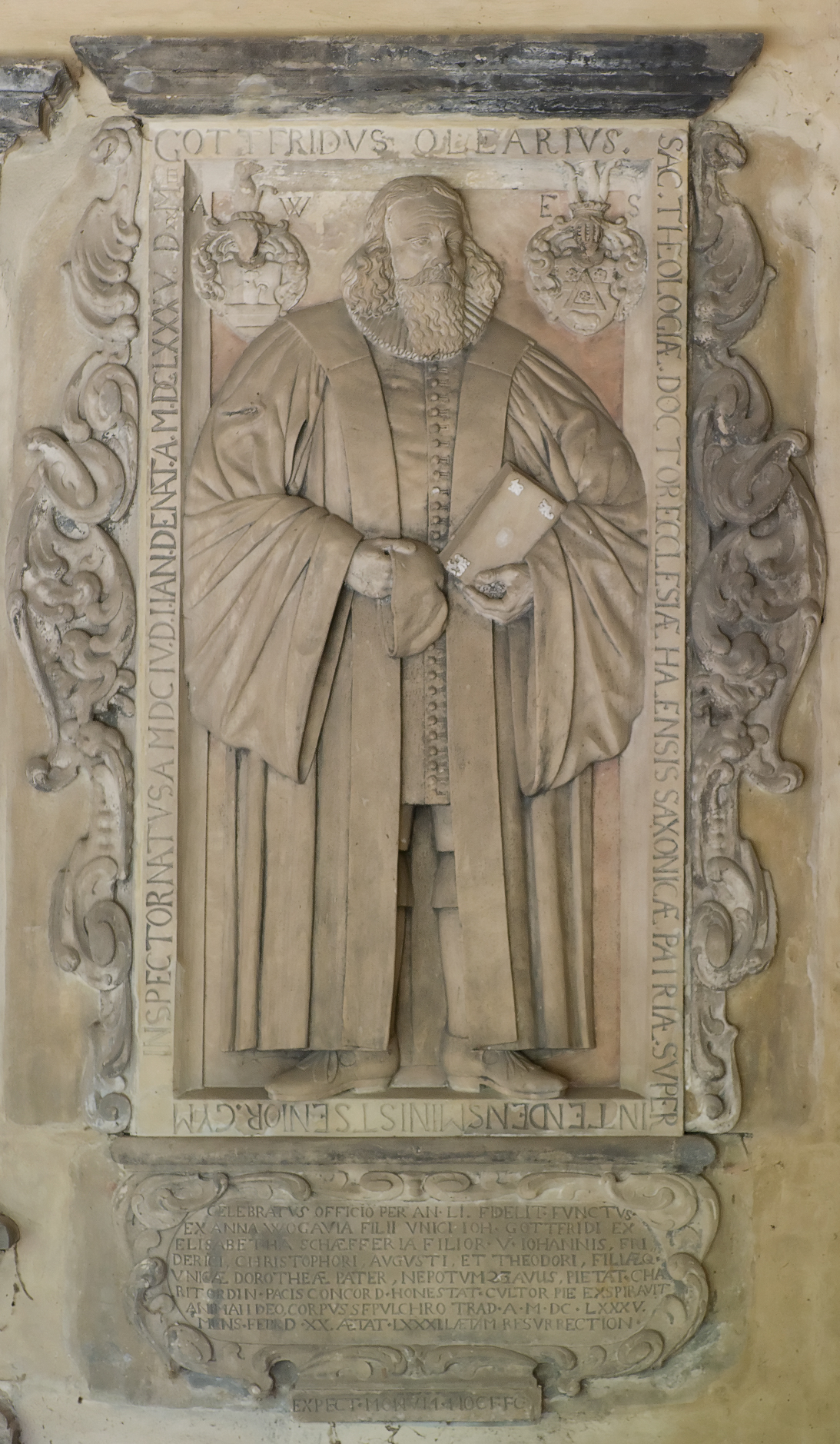 Gottfried Olearius (1604–1685), German Theologian and Chronicle; epitaph, Stadtgottesacker Halle